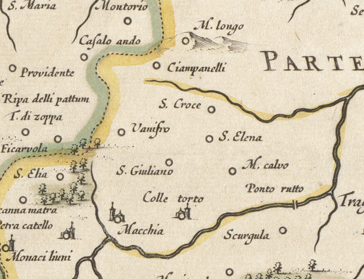 Author: Blaeu, Joan Publisher: Blaeu, Joan Date: 1640